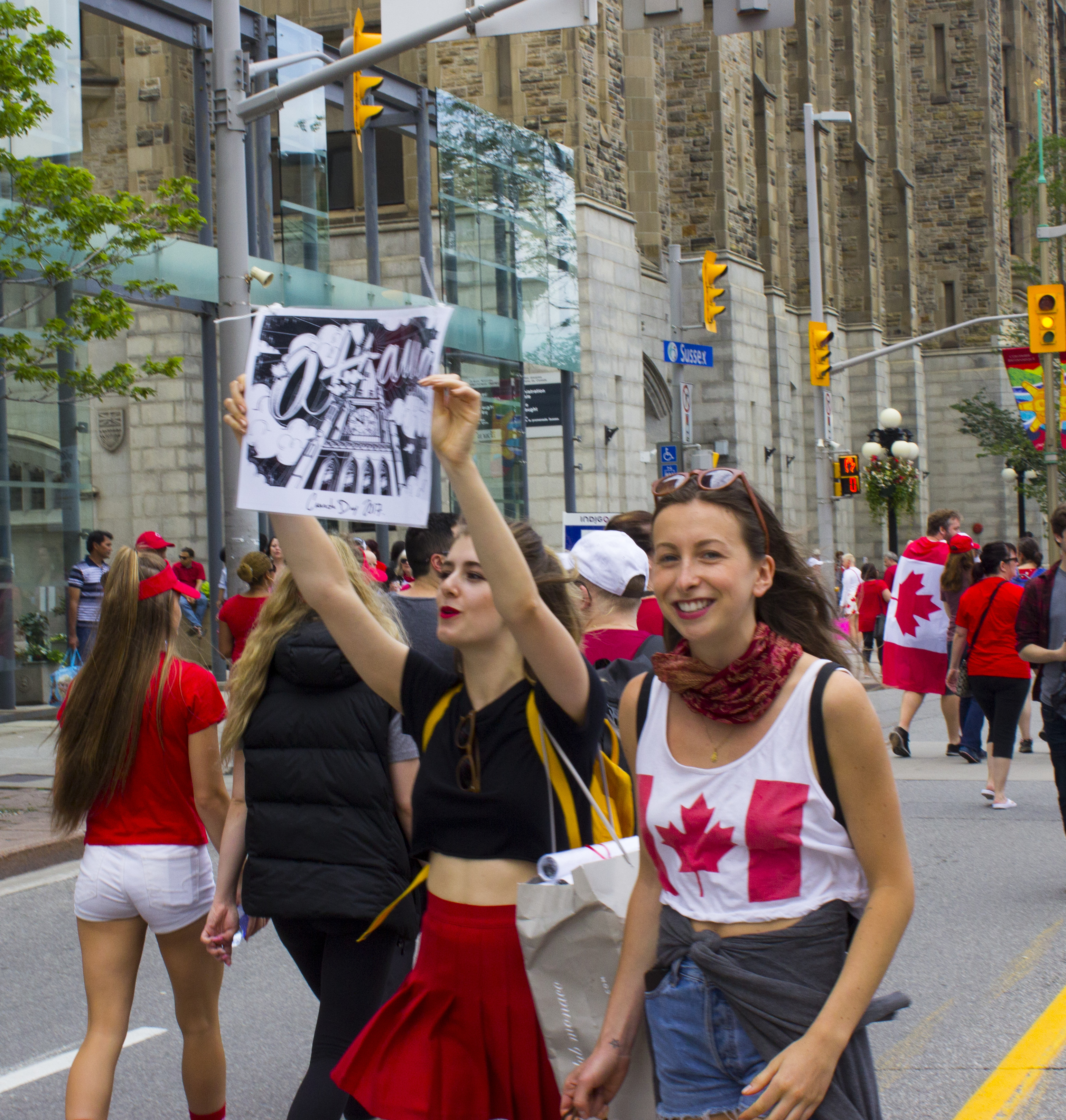 These young women were promoting local art for Canada 150 (confirmed via their chants), by hawking Ottawa 2017 posters and attempting to promote Ottawan spirit. Taken in Ottawa during Canada Day, 2017.